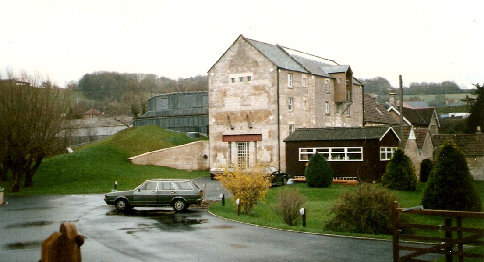 Front of Real World Studio, Box, Wiltshire